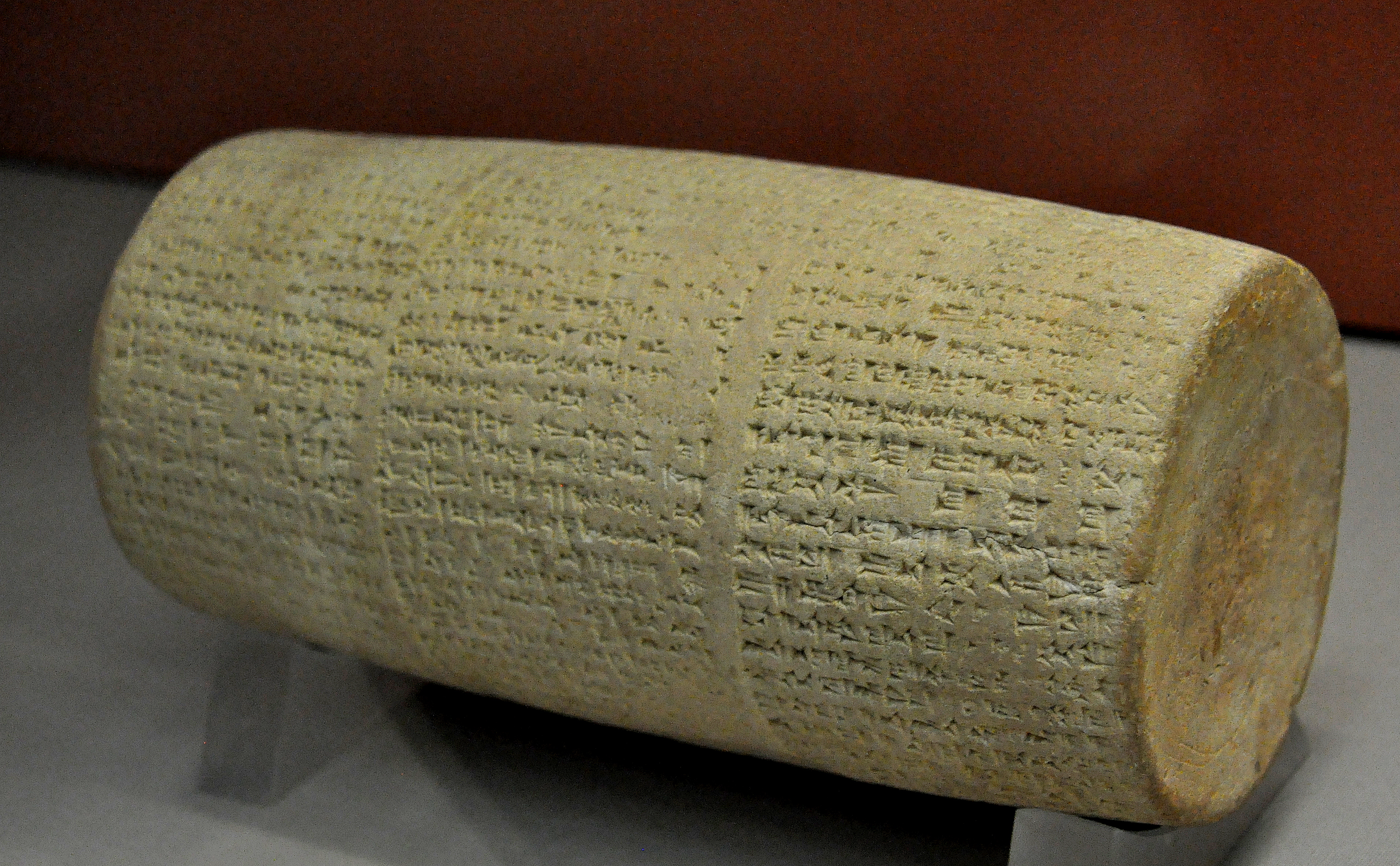 This terracotta cylinder records, in 3 columns, the building operations done by Nabonidus, including the restoration of the temple of the God Shamash at Larsa. Probably from Larsa, southern Mesopotamia. Neo-Babylonian period, 555-539 BCE. The British Museum, London.